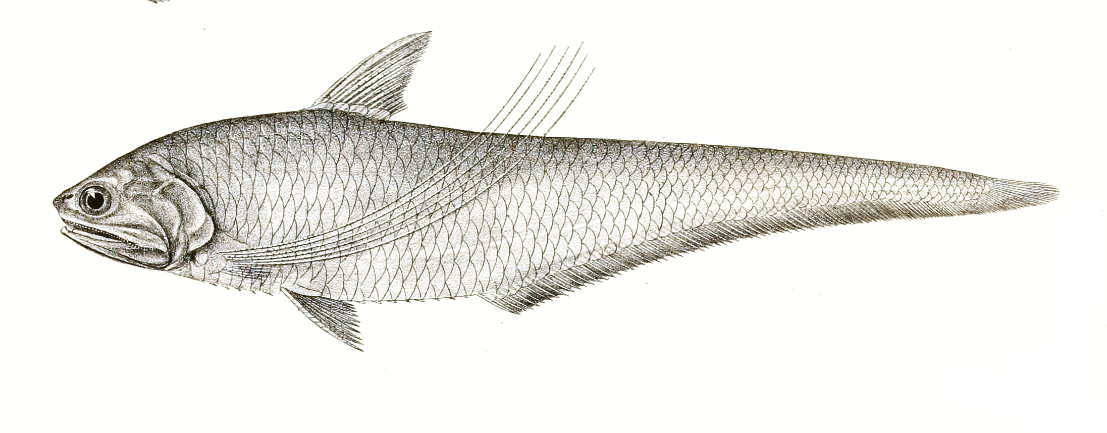 The species names / identity need verification - original names from plate are included here. The original plates showed the fishes facing right and have been flipped here. Coilia ramcarati